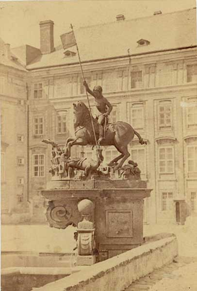 St. George fighting dragon, Prague Castle